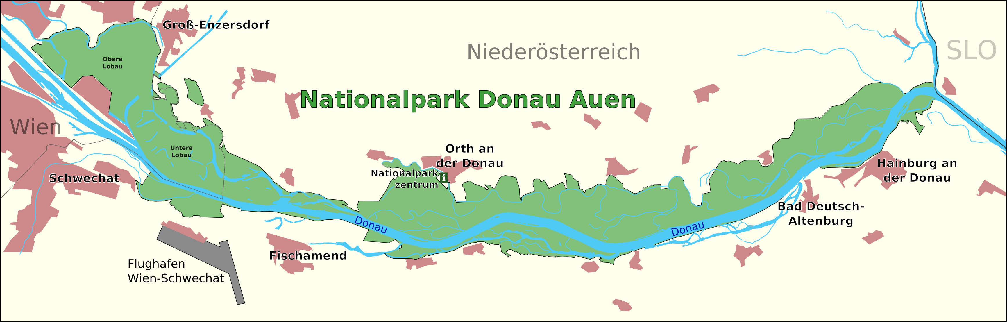 map of the national park Donau-Auen, Austria